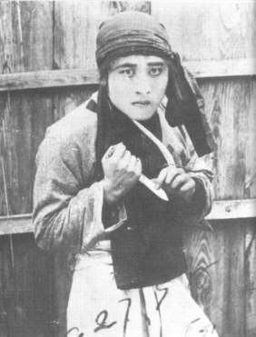 Description: Promotional poster for the Na Woon-gyu (1902 – 1937) film, Deuljwi (1927). The copyright of this poster once belonged to Na Woon-gyu who was the director, actor, screenwriter, and producer of the film and owner of Na Woon-gyu production. However, 50 years after his death, the poster is now public domain in South Korea and other countries to which the similar copyright would apply.